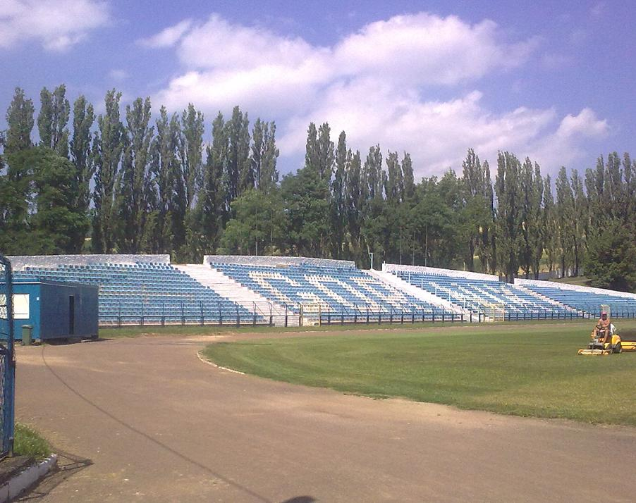 Walbrzych, Górnik Wałbrzych Stadium